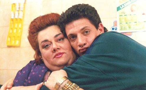 El acompañamiento- película argentina